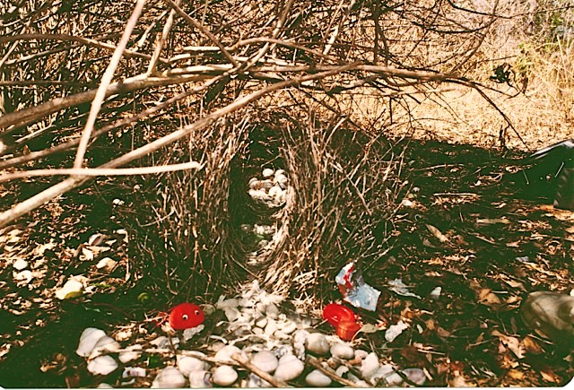 i took this photo on my property about 25 km from Cooktown in 1988.